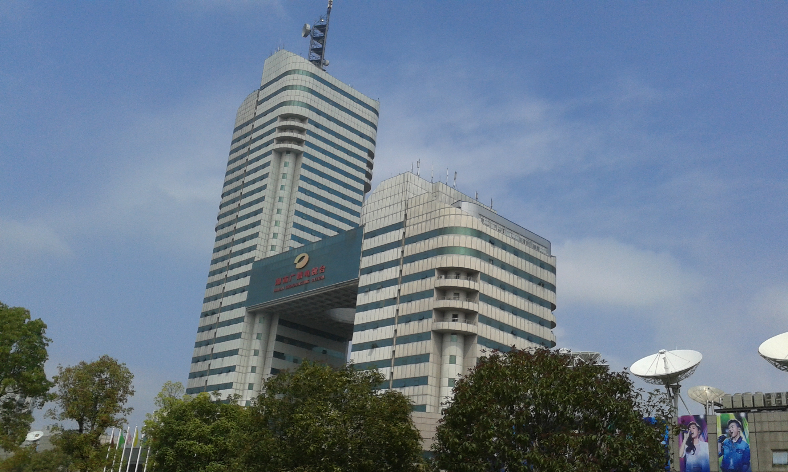 The headquarters of HBS